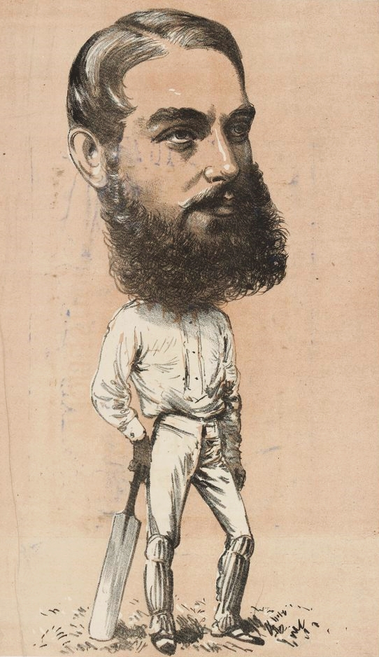 Lithograph, 37 x 23.5 cm.